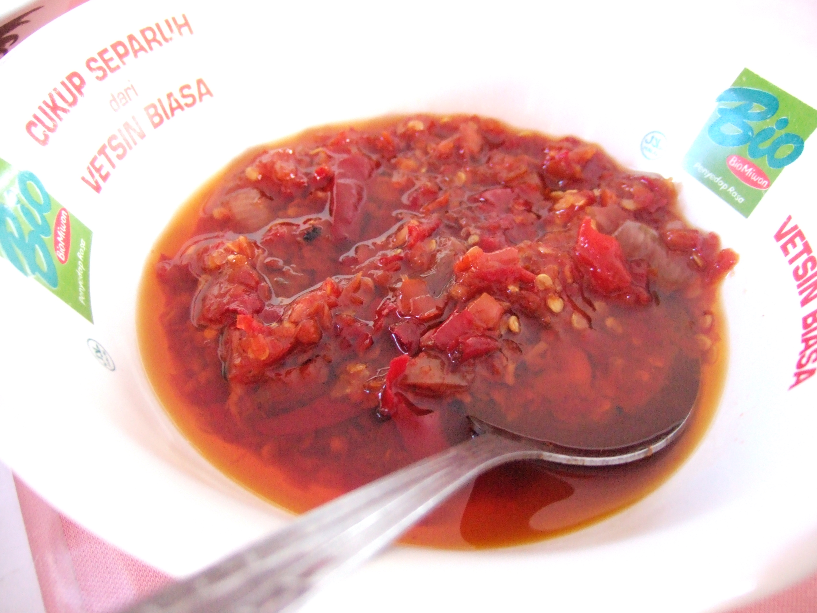 Sambal rica (stir-fried chili sauce)